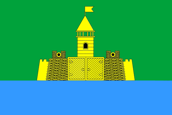 Flag of Abinsky rayon, Krasnodar Territory, Russia